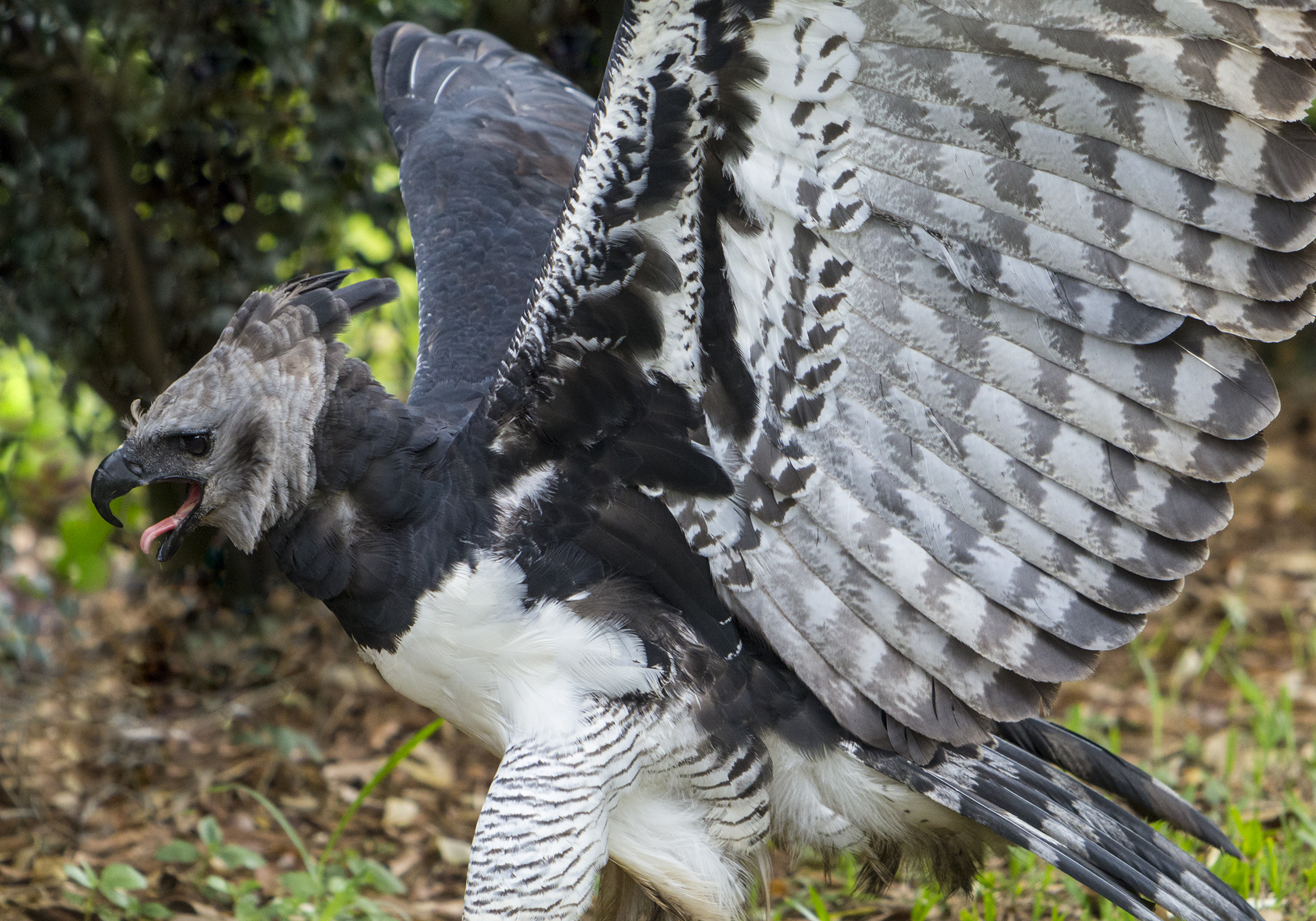 Sensing approaching danger lifts wings to attack position